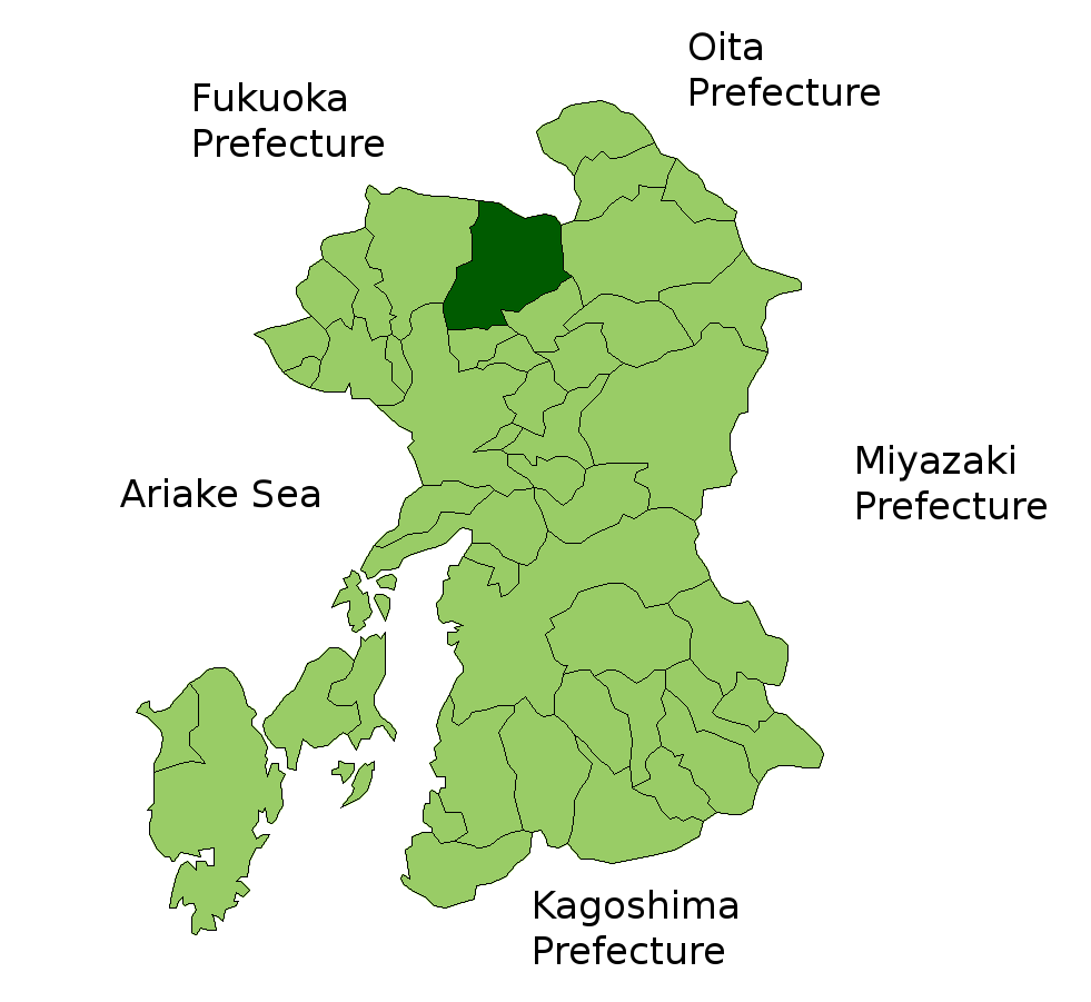 The location of Kikuchi in Kumamoto Prefectuur, Japan